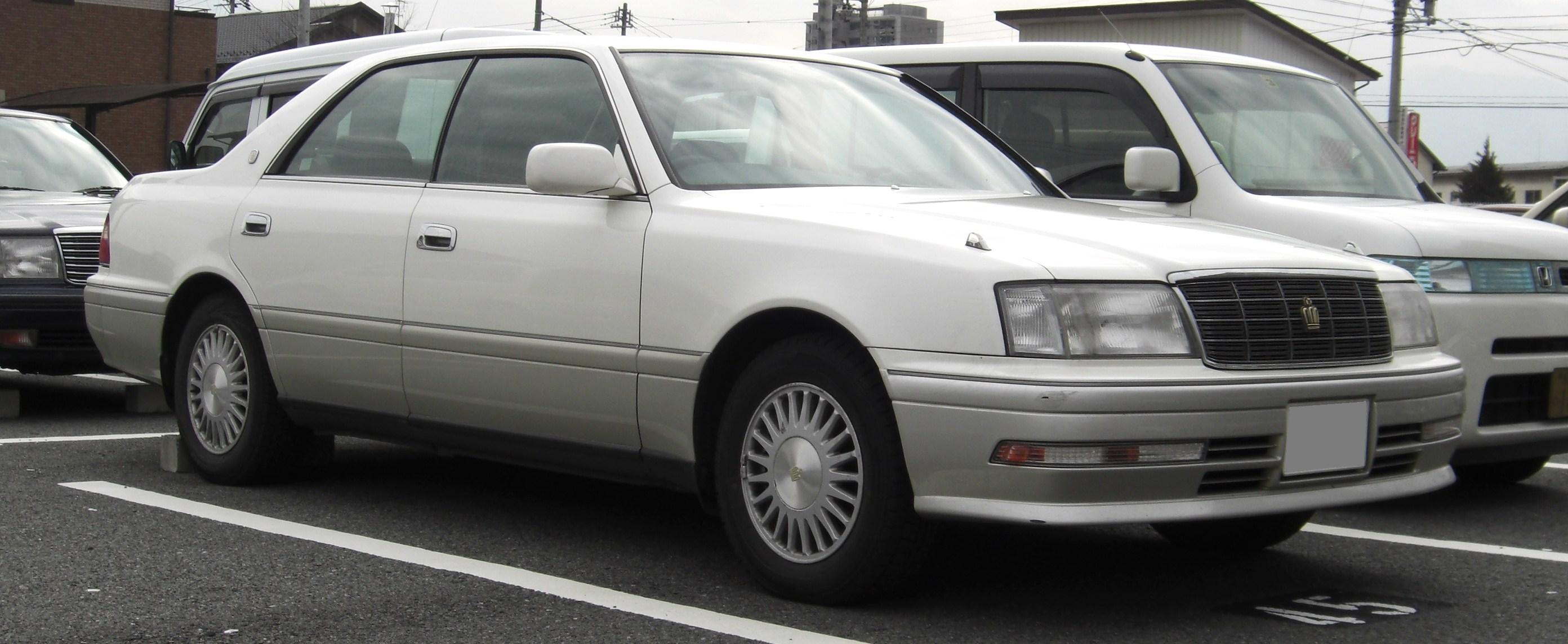 Toyota Crown